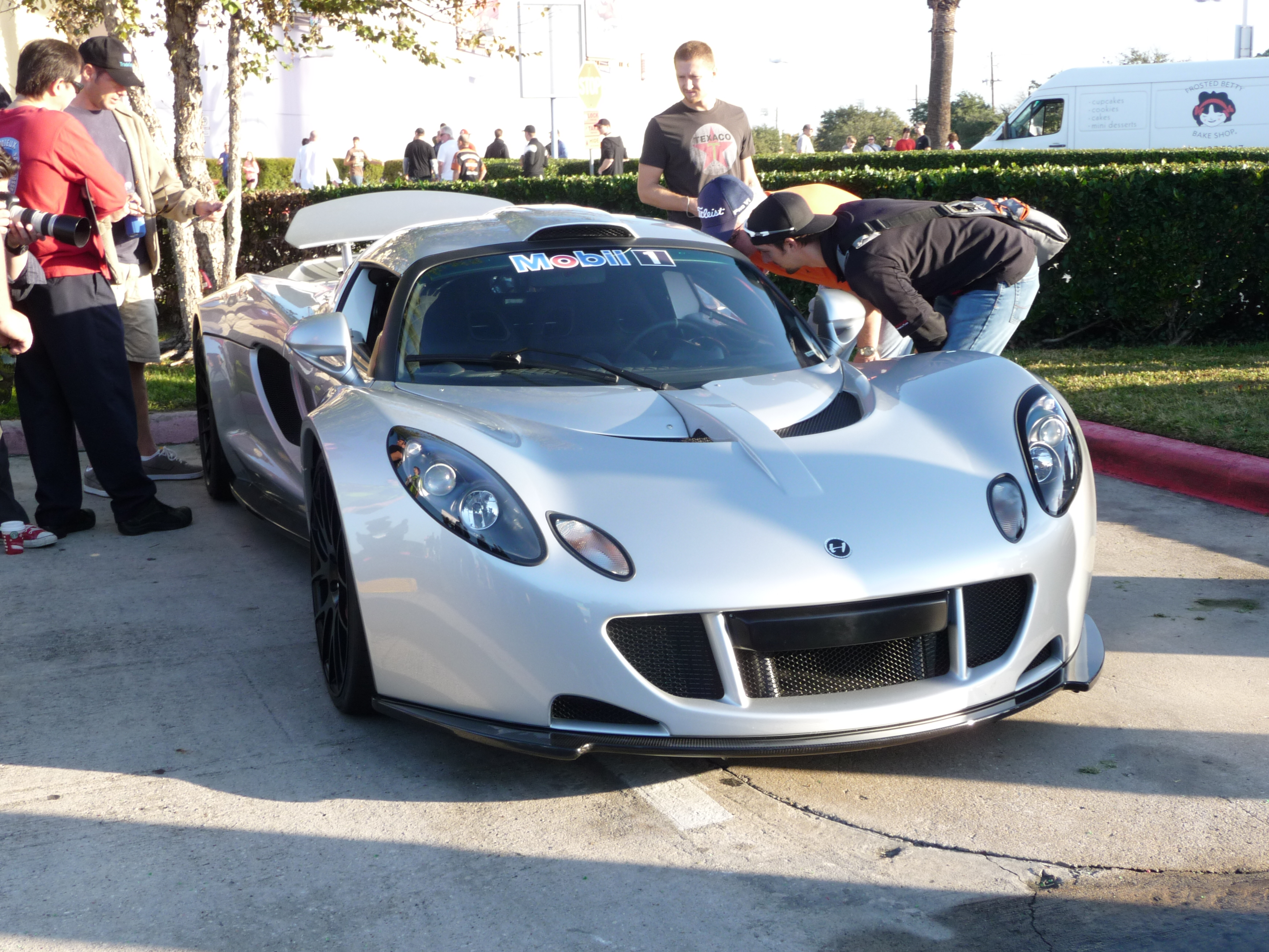 Hennessey Venom GT #001 at Houston Cars and Coffee.